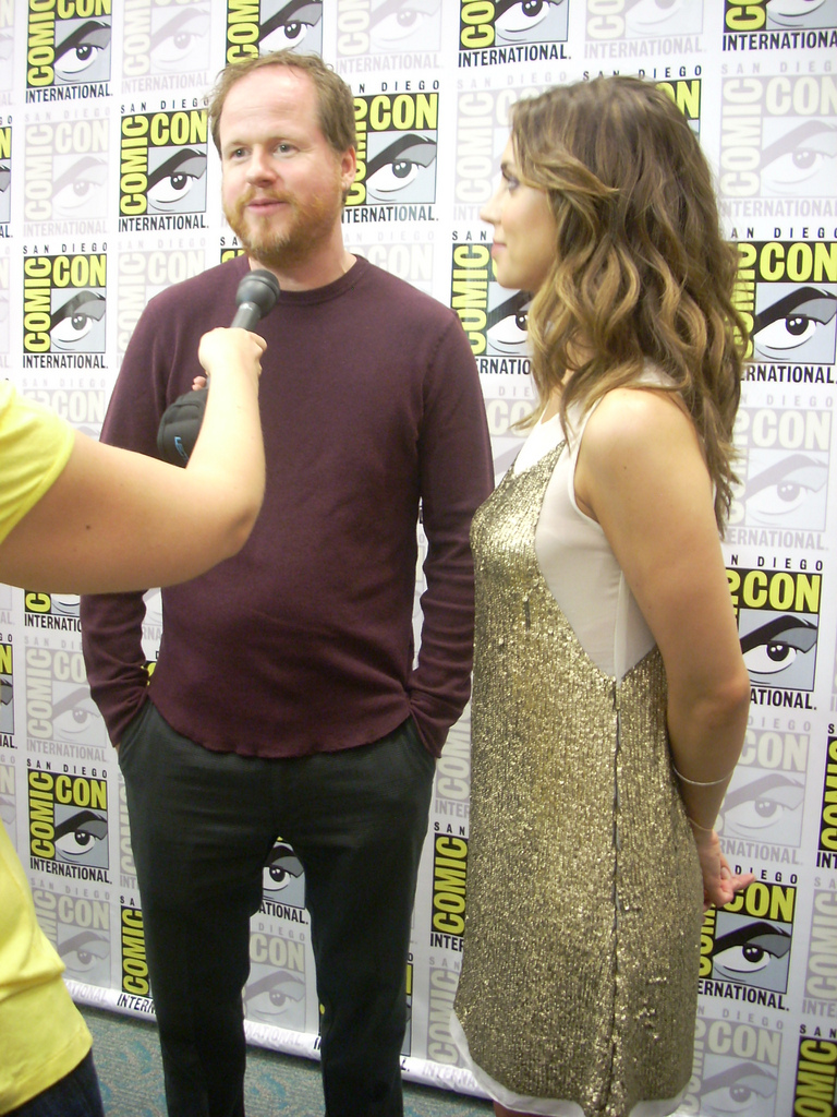 Comic-Con 2009 - Dollhouse - San Diego, Calif. - July 24, 2009